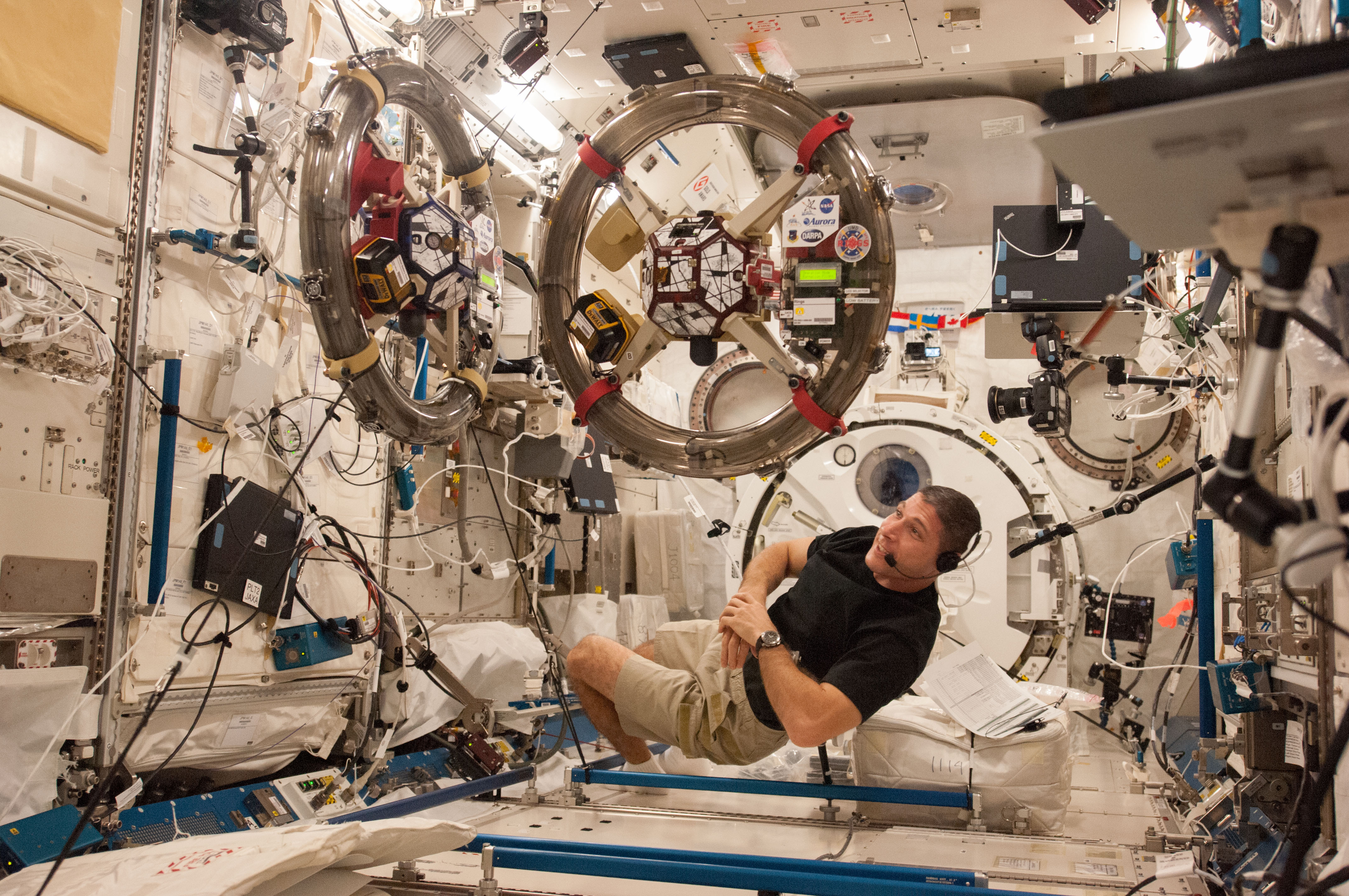 In the International Space Station's Kibo laboratory, NASA astronaut Michael Hopkins, Expedition 37 flight engineer, conducts a session with a pair of bowling-ball-sized free-flying satellites known as Synchronized Position Hold, Engage, Reorient, Experimental Satellites, or SPHERES. Surrounding the two SPHERES mini-satellites is ring-shaped hardware known as the Resonant Inductive Near-field Generation System, or RINGS. SPHERES-RINGS seeks to demonstrate wireless power transfer between satellites at a distance for enhanced operations.